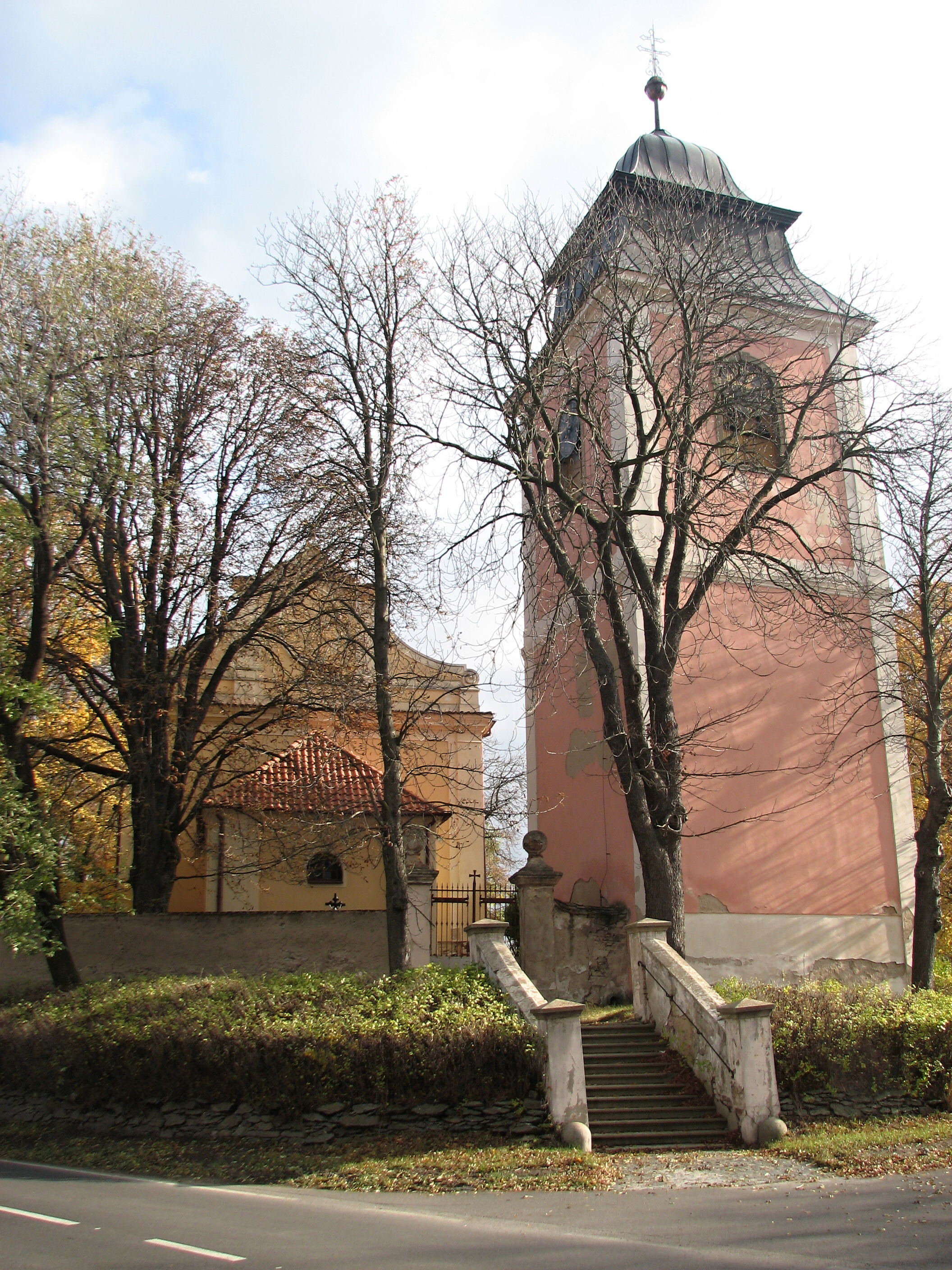 Velim, catholic church